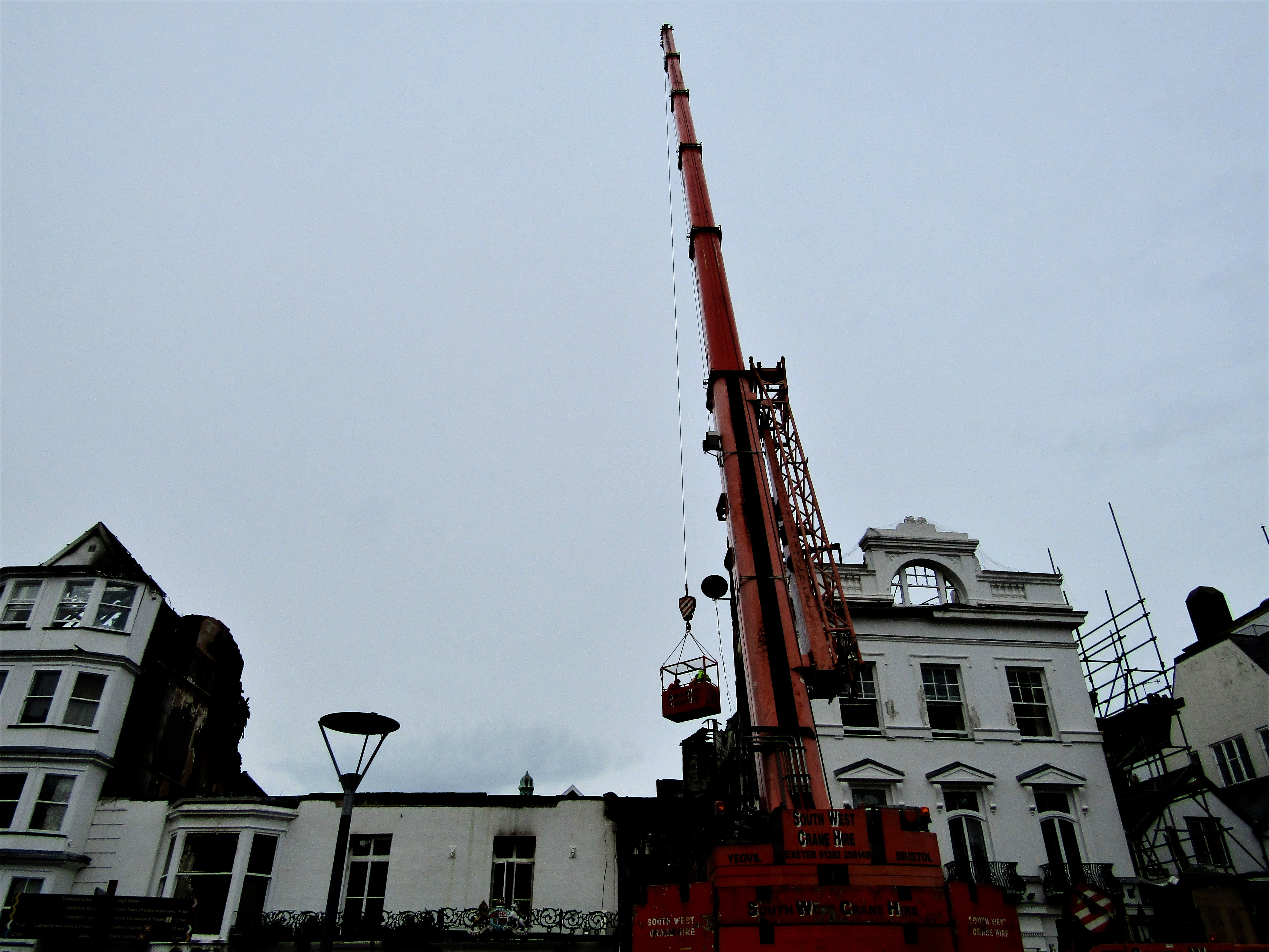 Workmen inspecting the internal fire damage at the Royal Clarence Hotel in a crane bucket.